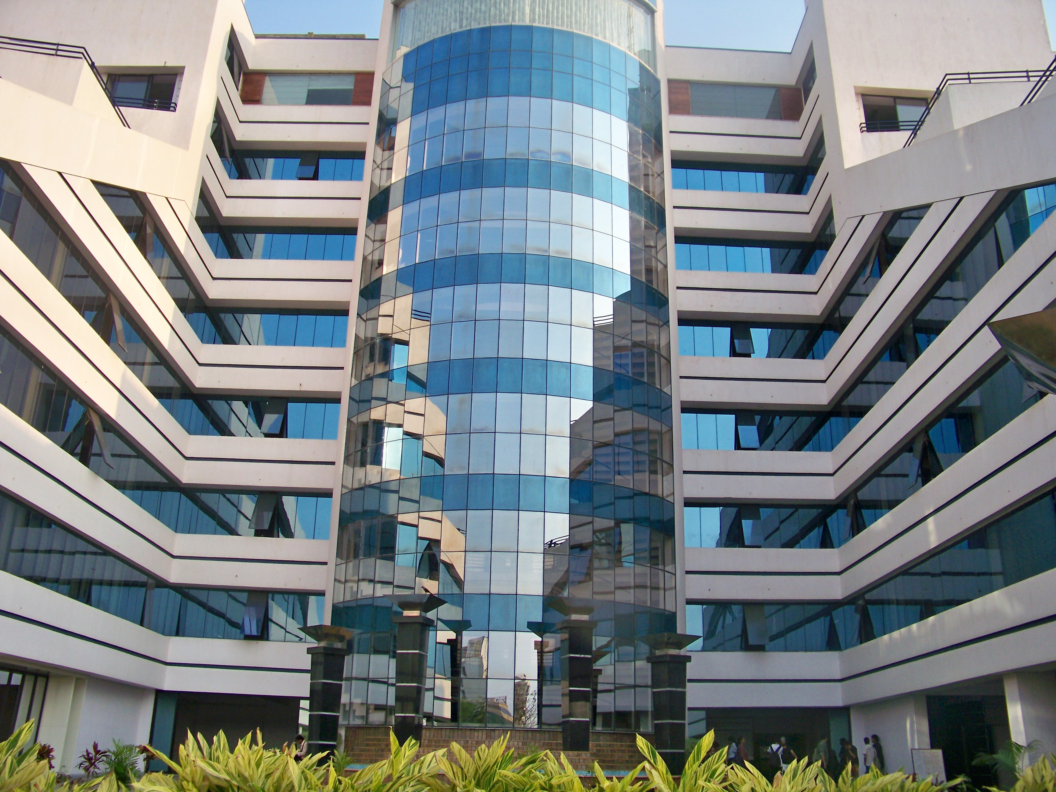 Lawn and fountains in the foreground.